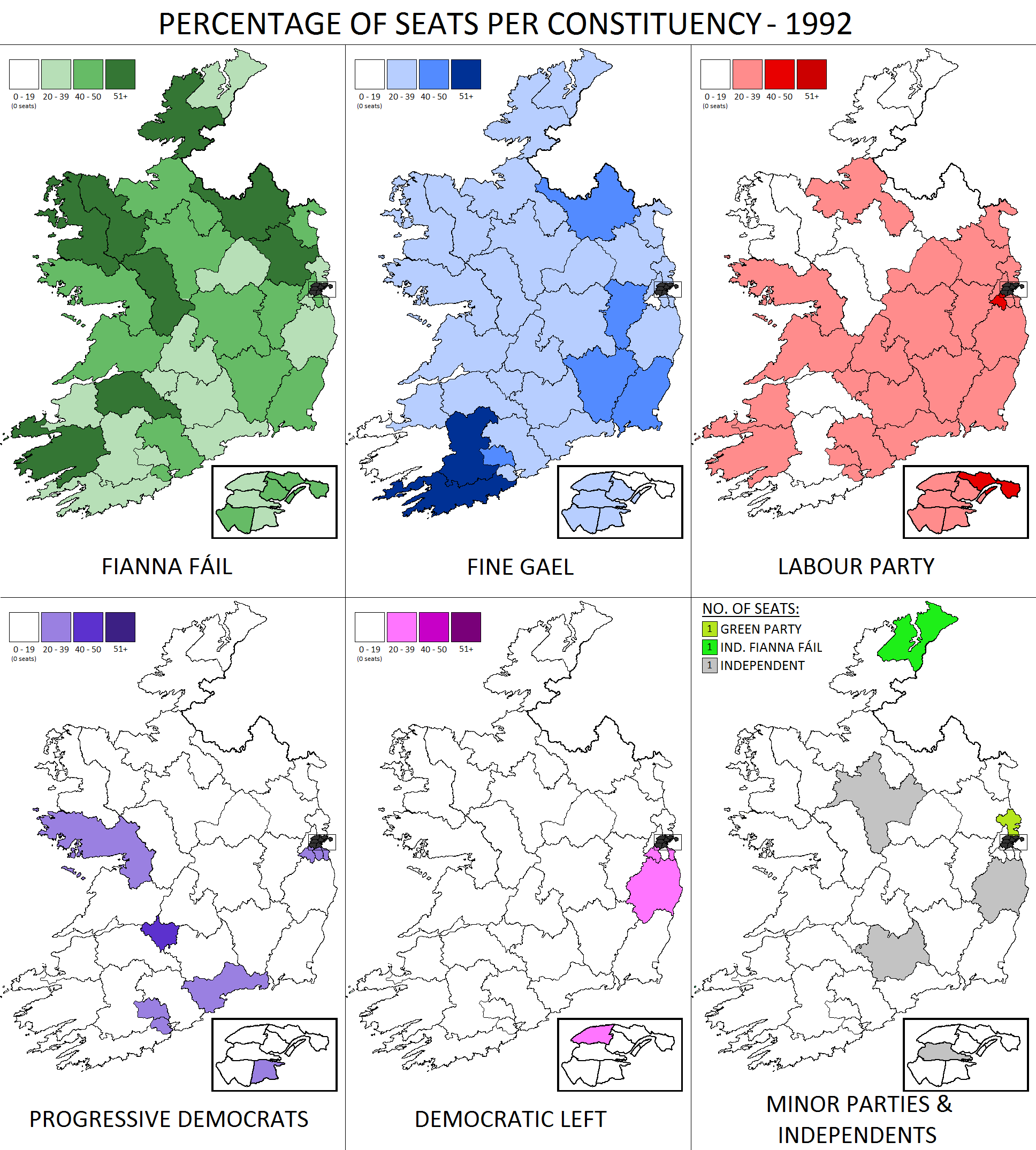 Graphical representation of the 2007 Irish general election results. Created by myself using data from Wikipedia and literary sources.